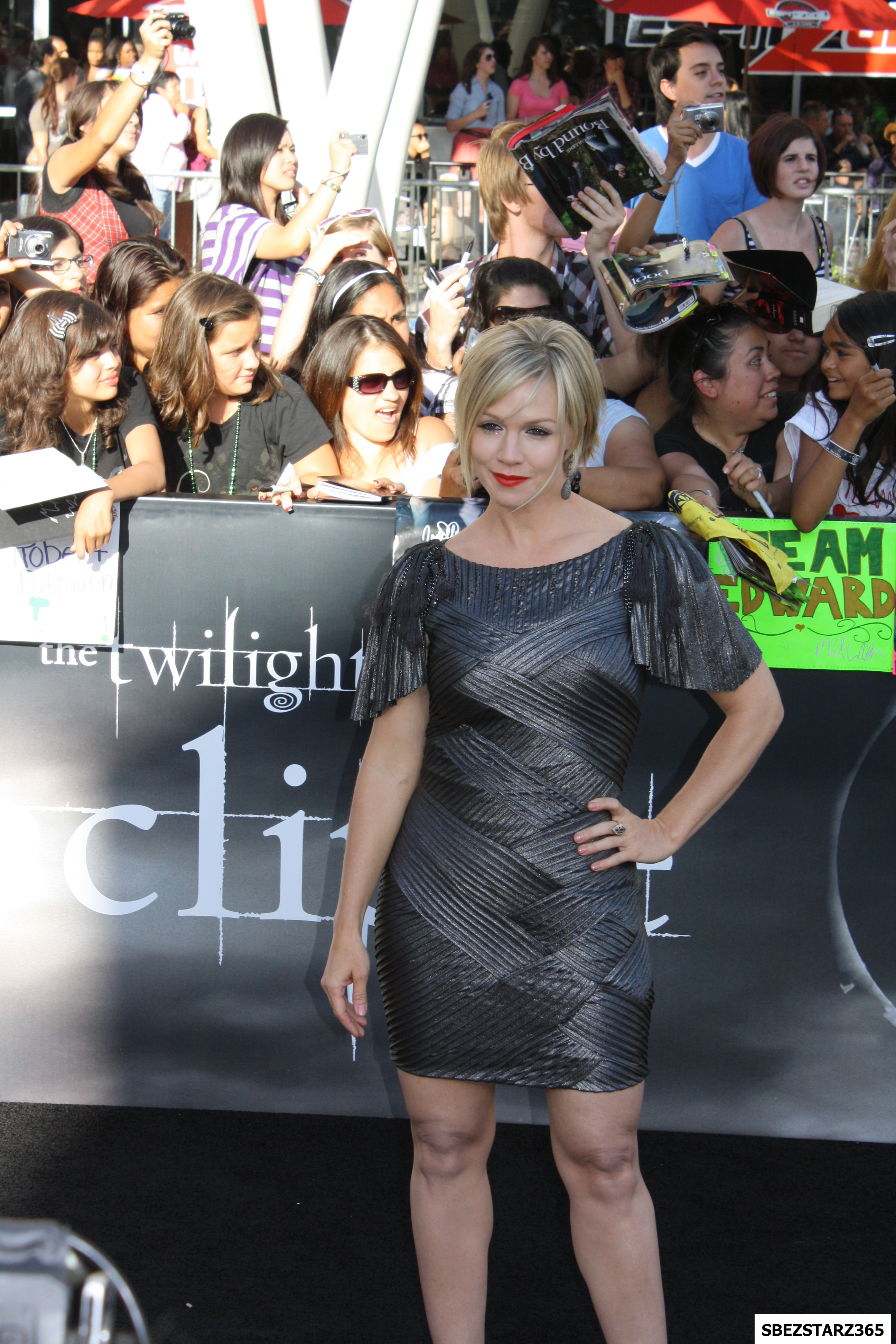 Actress Jennie Garth at Twilight Saga: Eclipse Premiere at Nokia Plaza in Los Angeles, CA